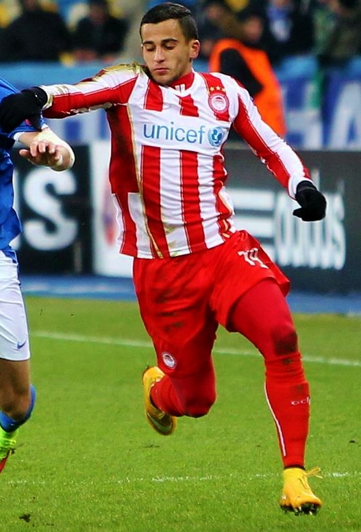 Omar Elabdellaoui